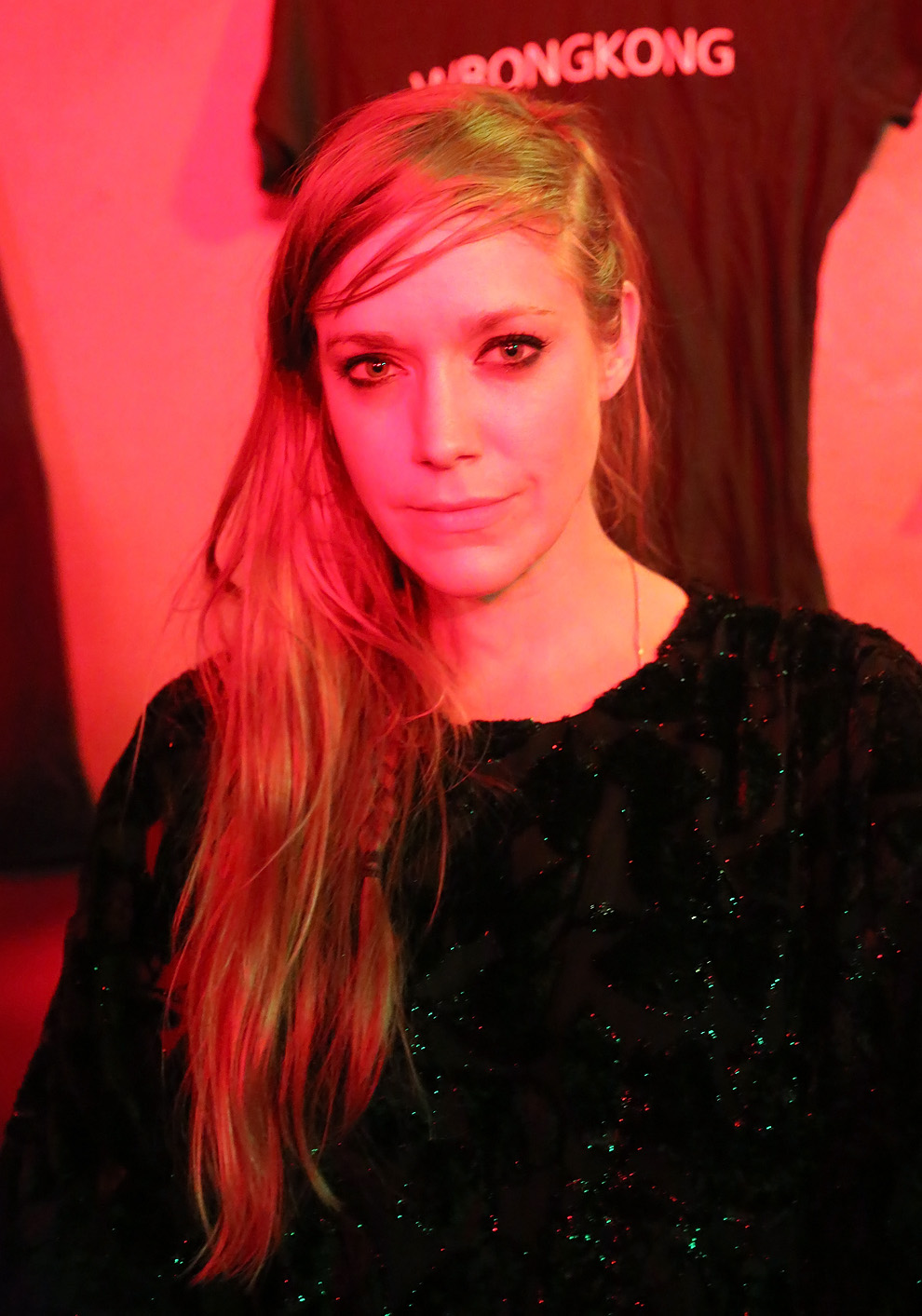 Cyrena Dunbar of german-canadian group Wrongkong after the concert at Fluc during Waves Vienna Music Festival & Conference 2012 in Vienna.